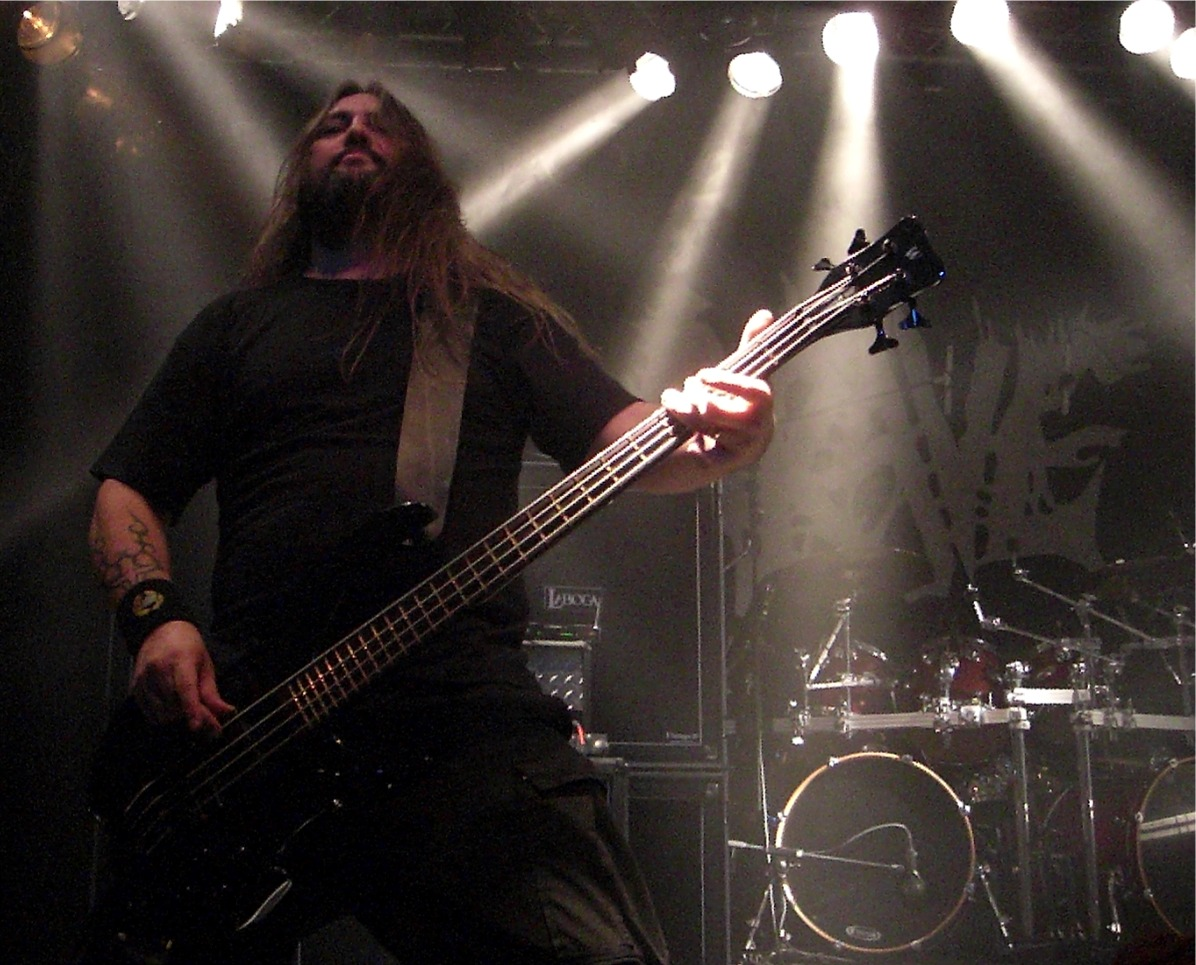 Bassplayer Fredrik Isaksson, Swedish death metal band Grave, Klubben, Stockholm 2008